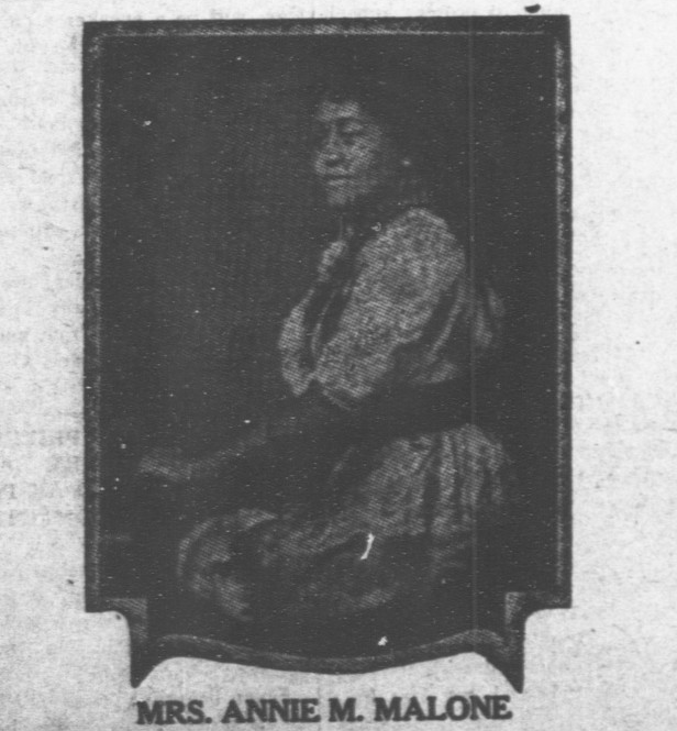 Annie Malone, 1921